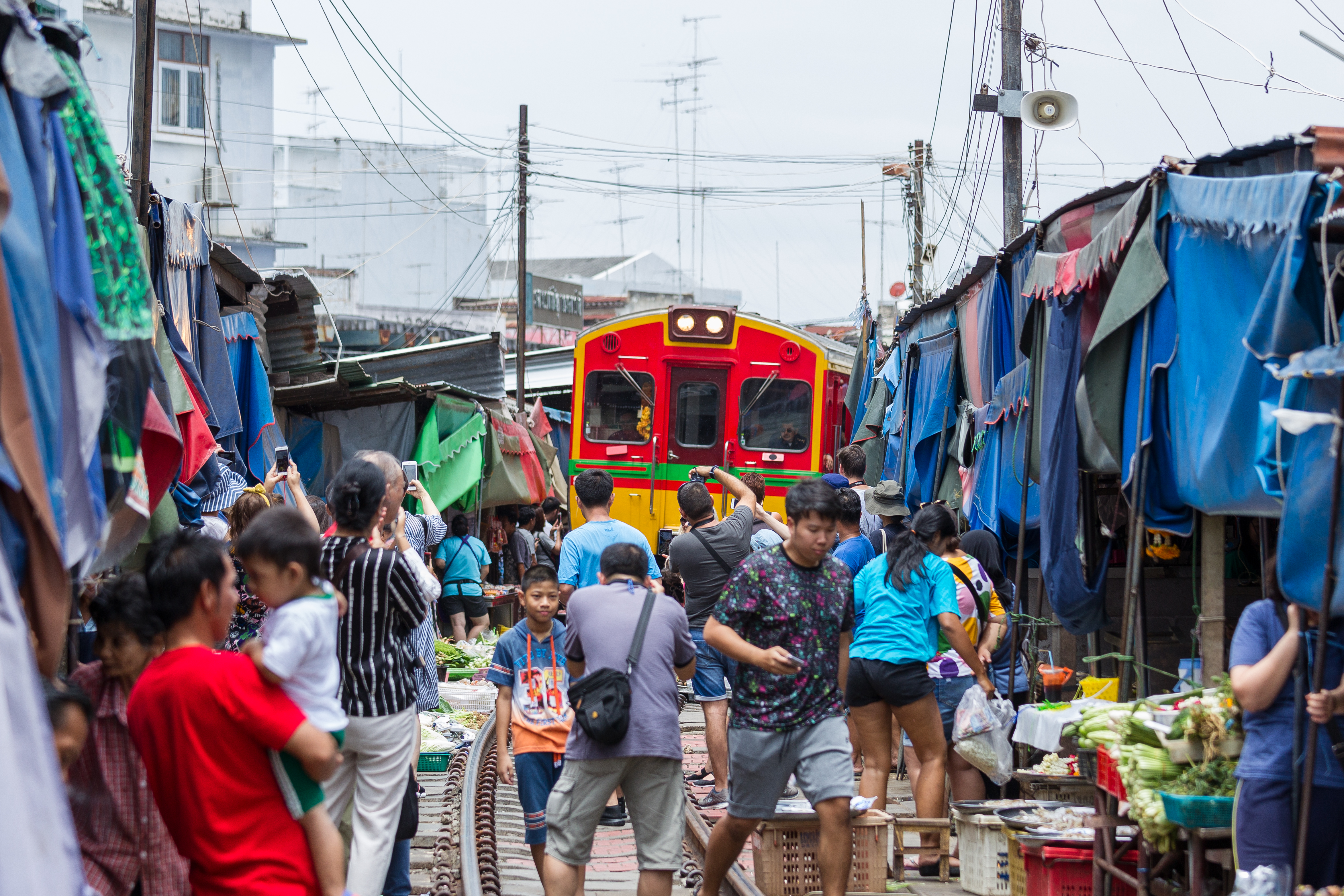 Talad Rom Hoop or Maeklong Railway Market, Samut Songkhram, Thailand.